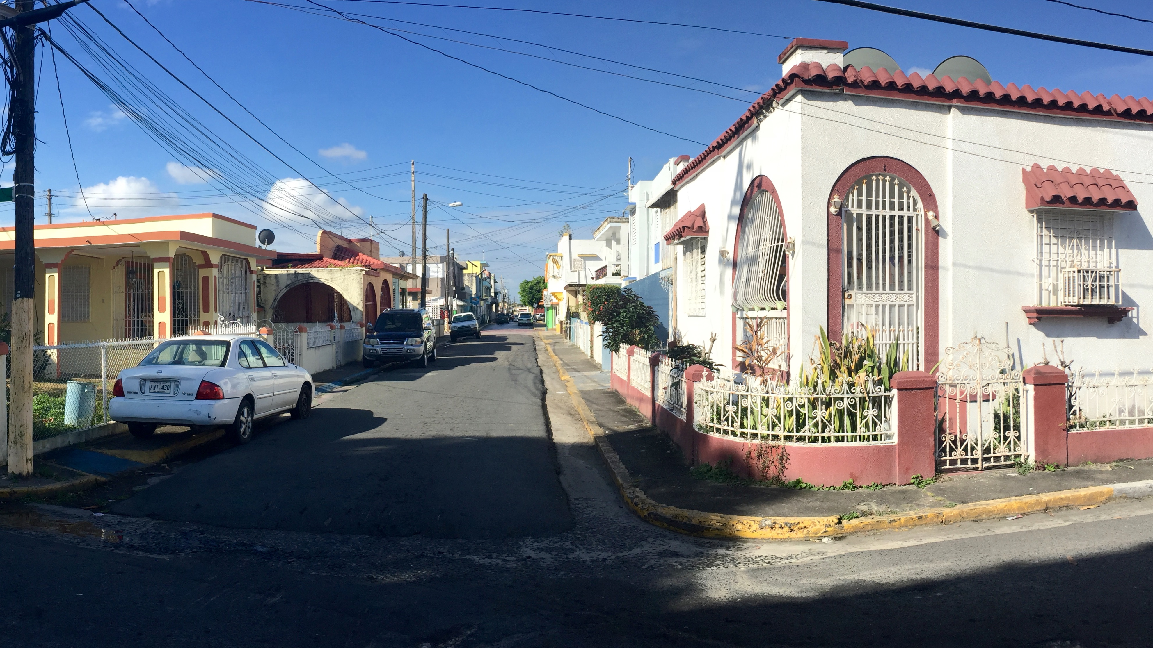 An urbanized part of town, these well built homes are considered "middle class" habitat for town folks